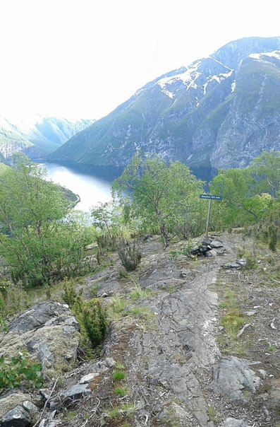 Årdalsvatnet + the view from Blåberg rock